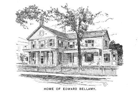 Home of American author and socialist Edward Bellamy in Chicopee Falls, Massachusetts. Image from Literary Pilgrimages in New England to the Homes of Famous Makers of American Literature... by Edwin M. Bacon. New York: Silver, Burdett and Company, 1902:p. 430